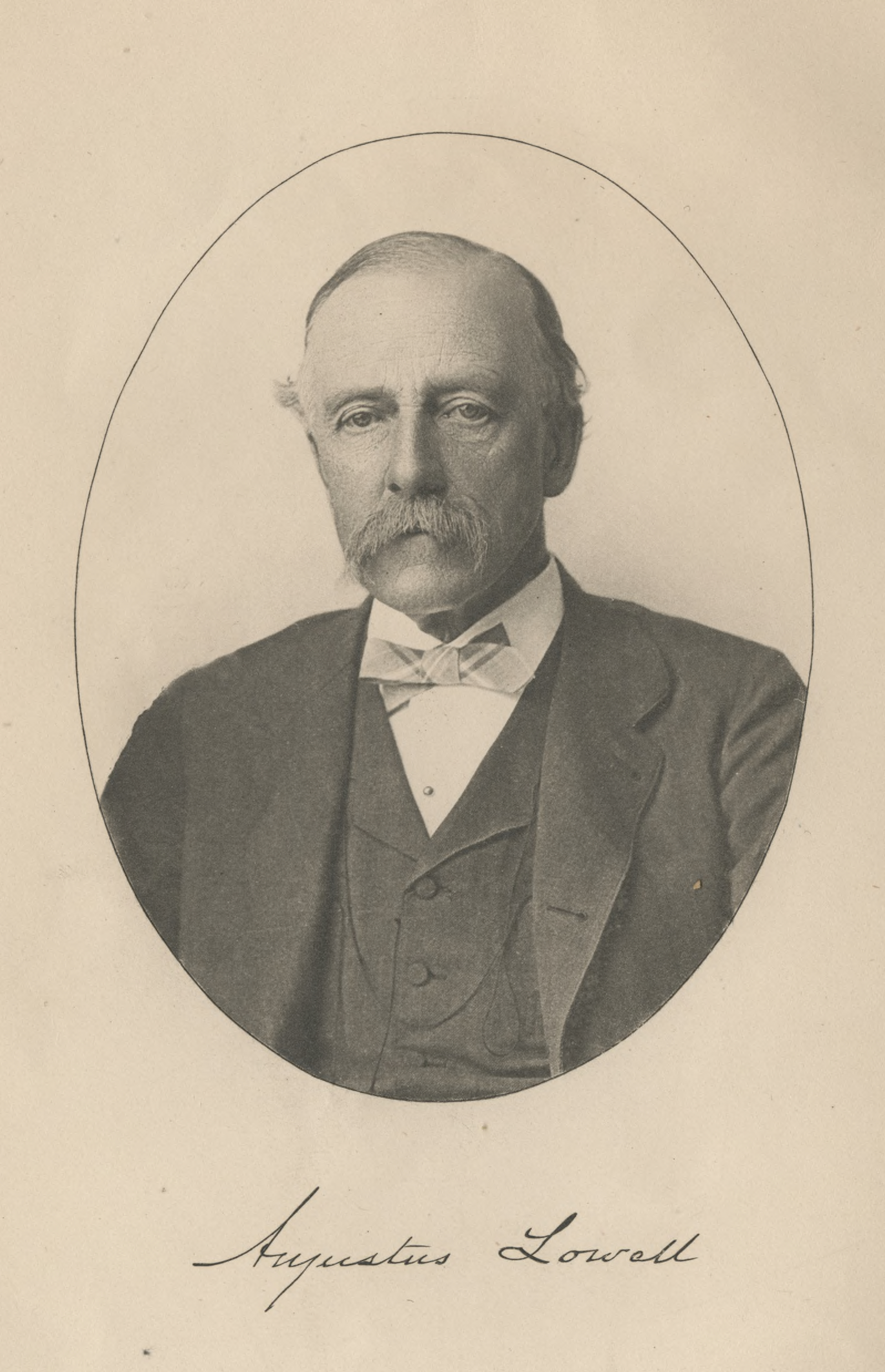 Portrait of Augustus Lowell (1830–1900), American businessman and philanthropist